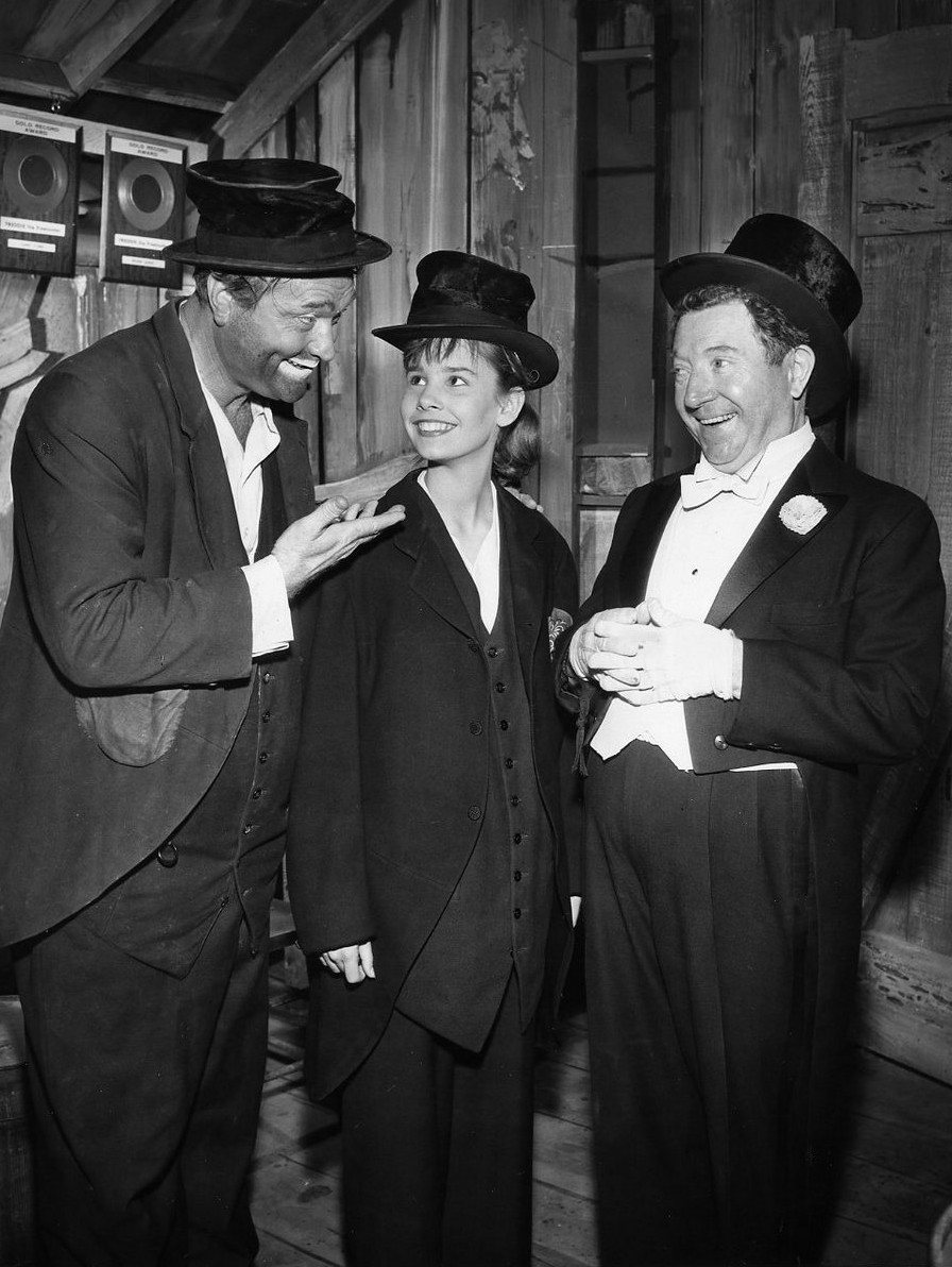 Red Skelton as Freddie the Freeloader, Carol Sydes aka Cindy Carol, Frank McHugh from Skelton's 1959 television show.